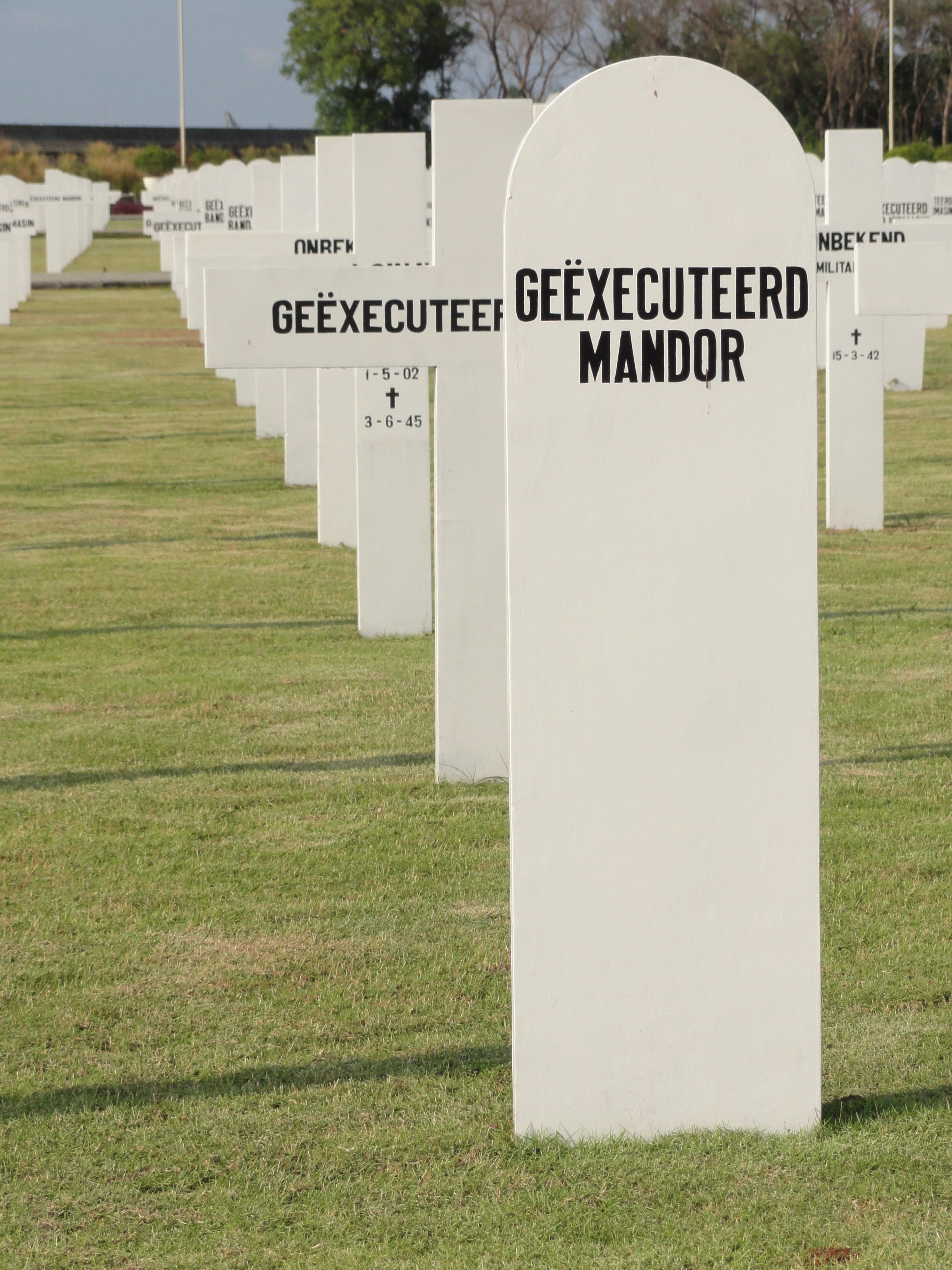 Grave at Ereveld Ancol